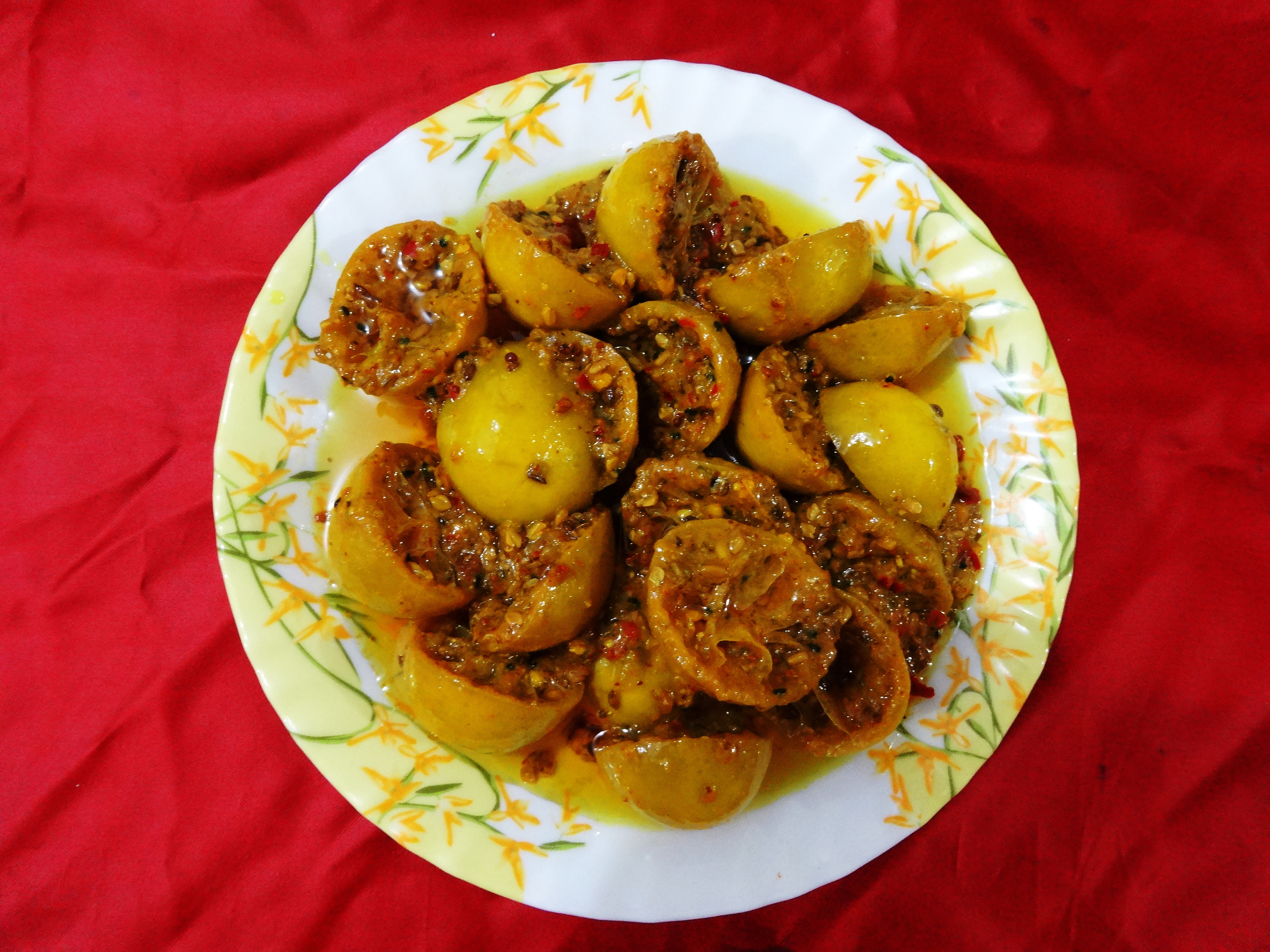 لیموں کا اچار